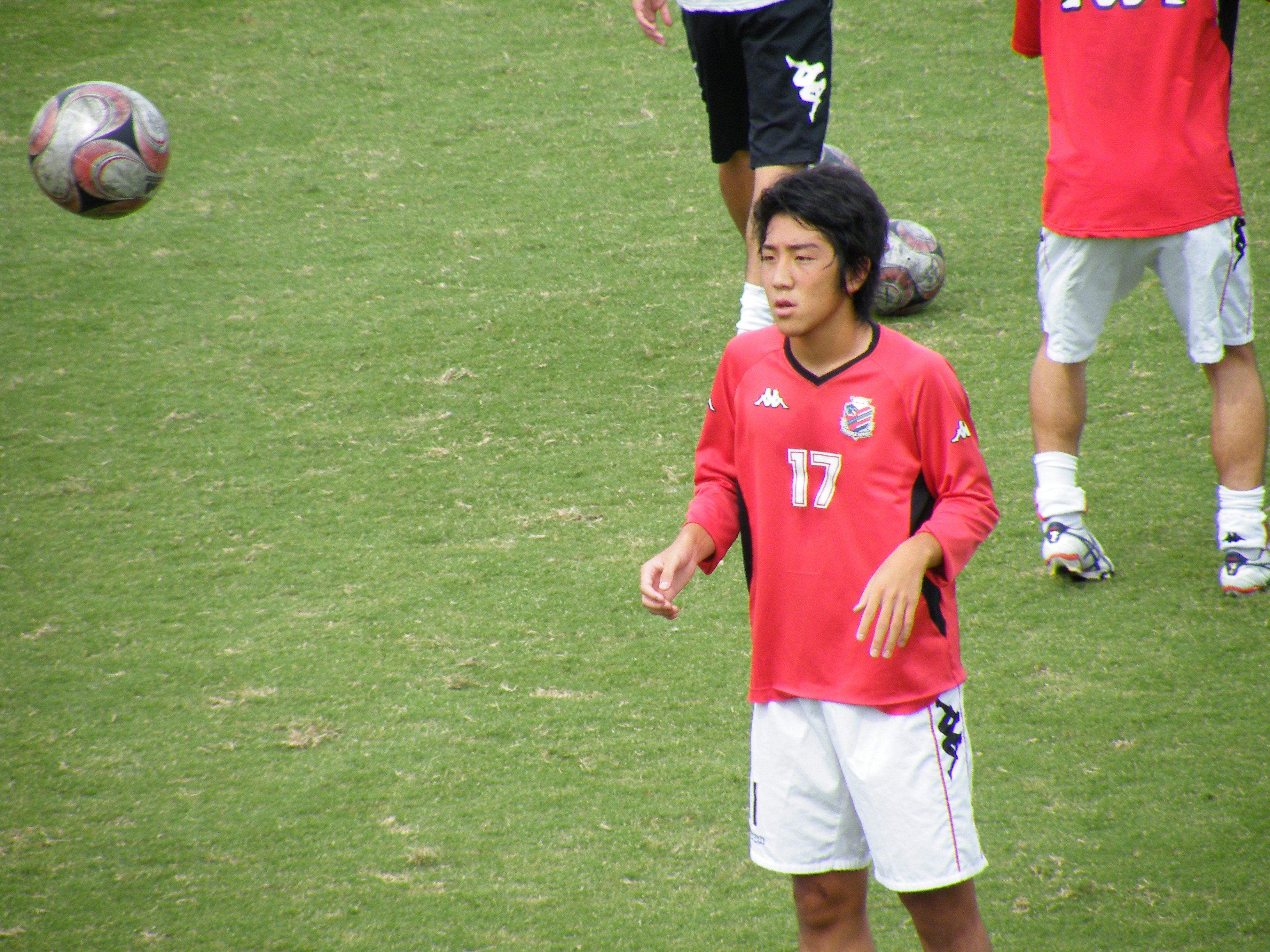 Vissel Kobe Youth vs. Consadole Sapporo Youth, Prince Takamado Cup U-18.